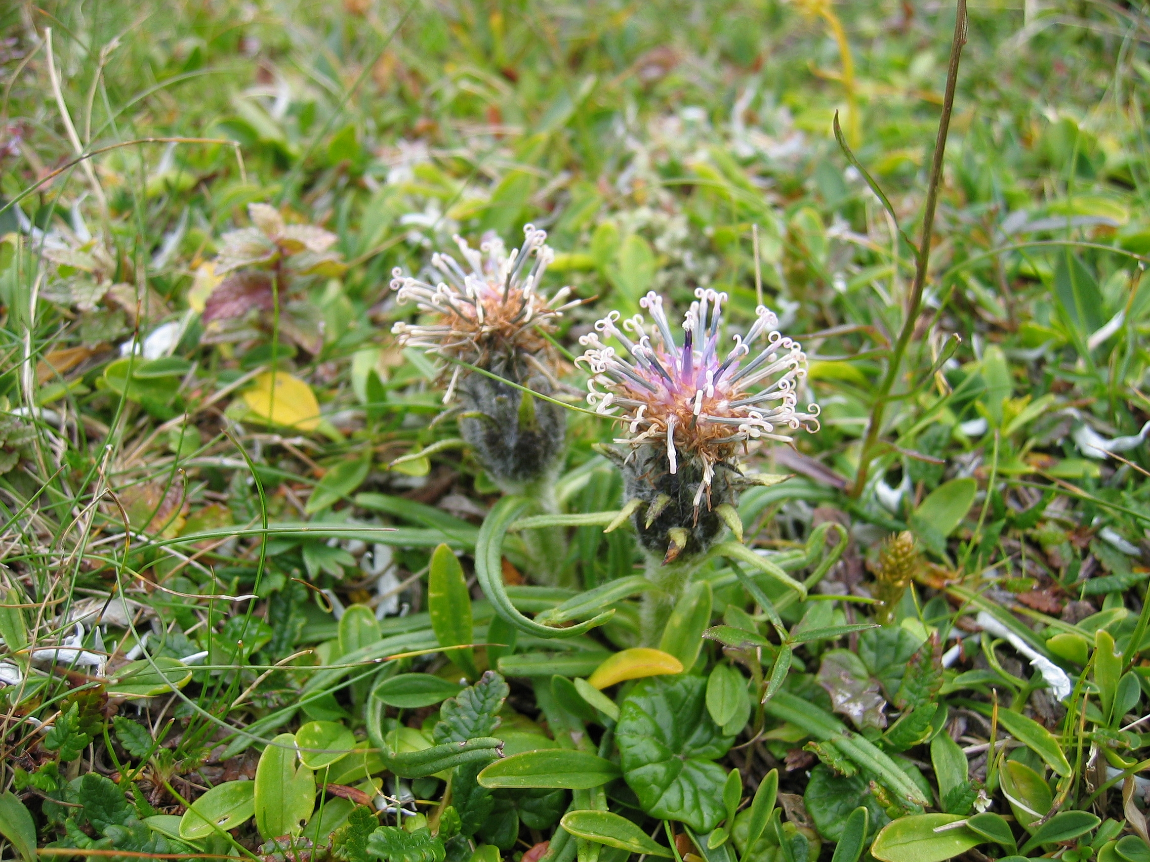 Saussurea pygmaea, Speikwiese (Toter Mann) ~ 2000m, Upper Austria, Austria